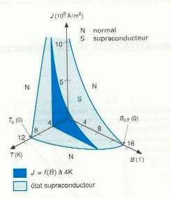 Diagramme de phase de l'alliage NbTi